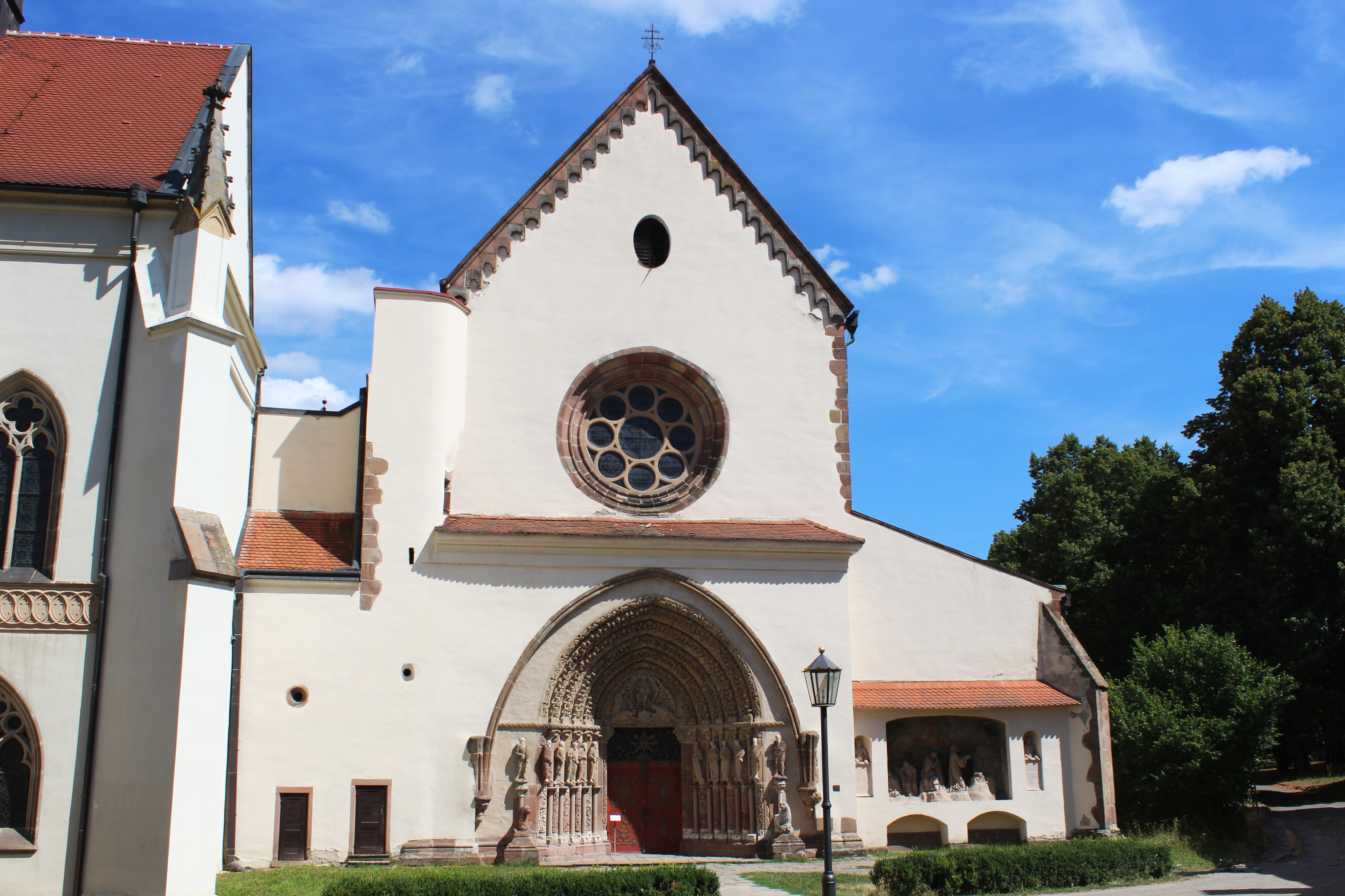 Church of the Assumption of the Virgin Mary, Předklášteří, Brno-Country District, Czech Republic - Google Maps - Google Earth This photograph was taken with a DSLR from WMCZ's Camera grant.